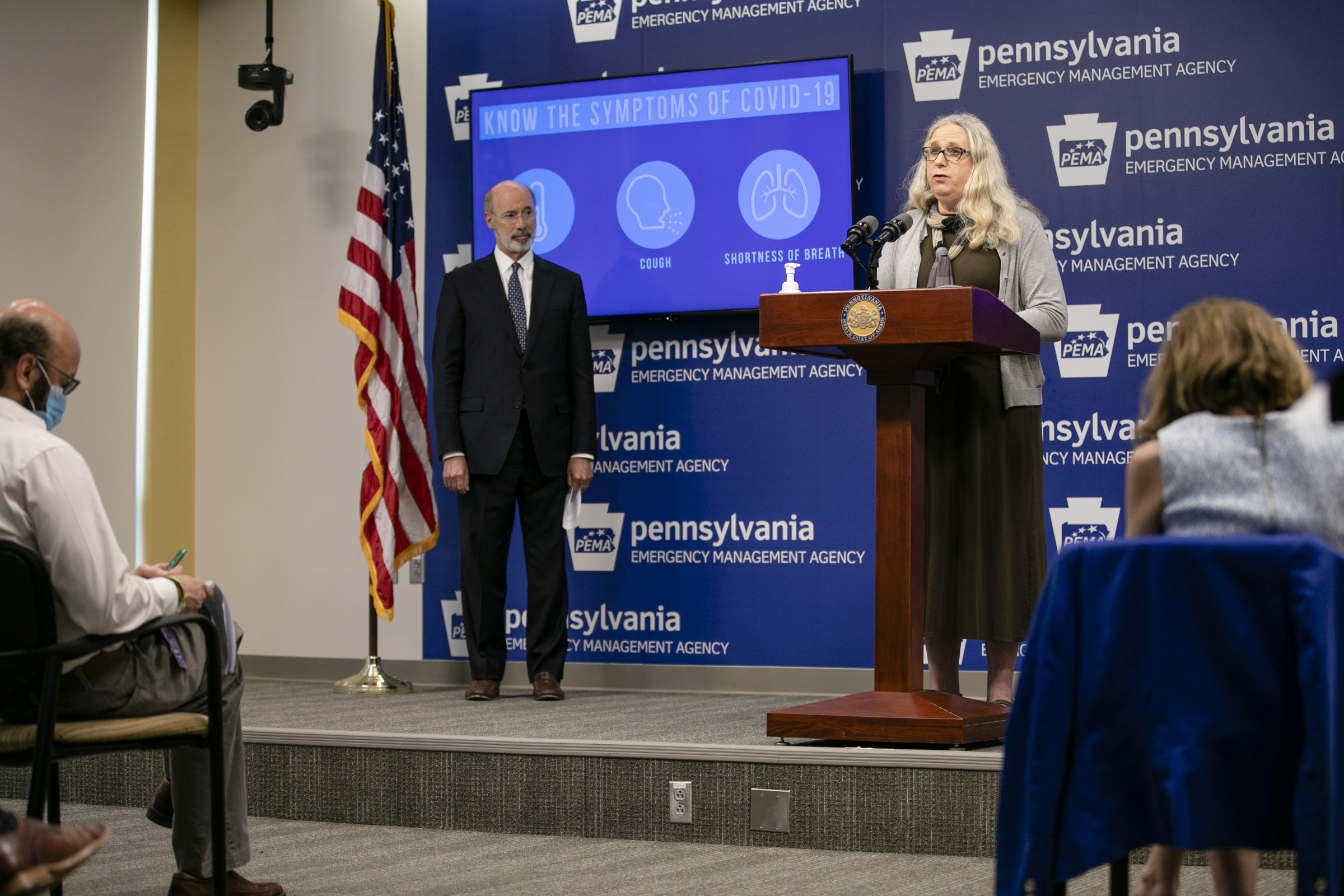 Governor Wolf and Secretary Levine provide an update on Pennsylvania’s response to COVID-19 in Harrisburg on May 29,, 2020. The phased reopening continues with 16 more counties set to go to the green phase on June 5th.